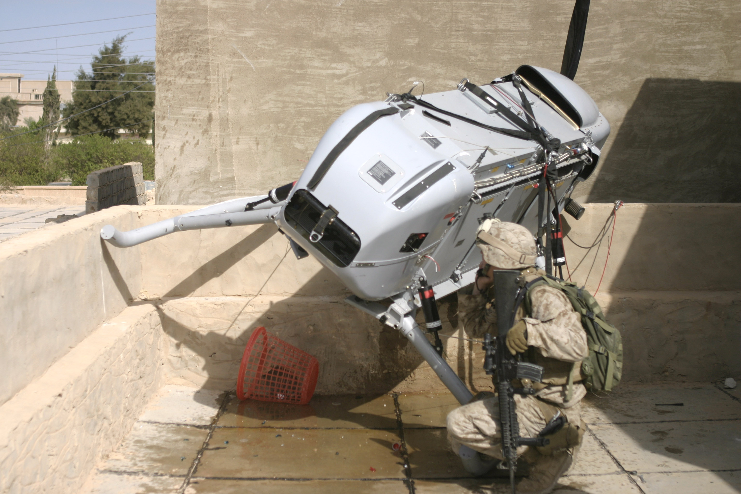 Hadithah Al Anbar, Iraq (Nov. 3, 2006) - U.S. Marines from Fox Company 2nd platoon 3rd squad secure the site of an unmanned aerial vehicle which crash landed on the roof of a house in the city of Hadithah while recovery issues are organized. Fox Company 2nd Battalion, 3rd Marines is deployed with Regimental Combat Team 7, 1st Marine Expeditionary Force (FWD) in support of Operation Iraqi Freedom in the Al Anbar Province of Iraq (MNF-W) to develop the Iraqi Security Forces, facilitate the development of official rule of law through democratic government reforms, and continue the development of a market based economy centered on Iraqi Reconstruction. U.S. Marine Corps photo by Sgt. Jason L. Jensen (RELEASED)